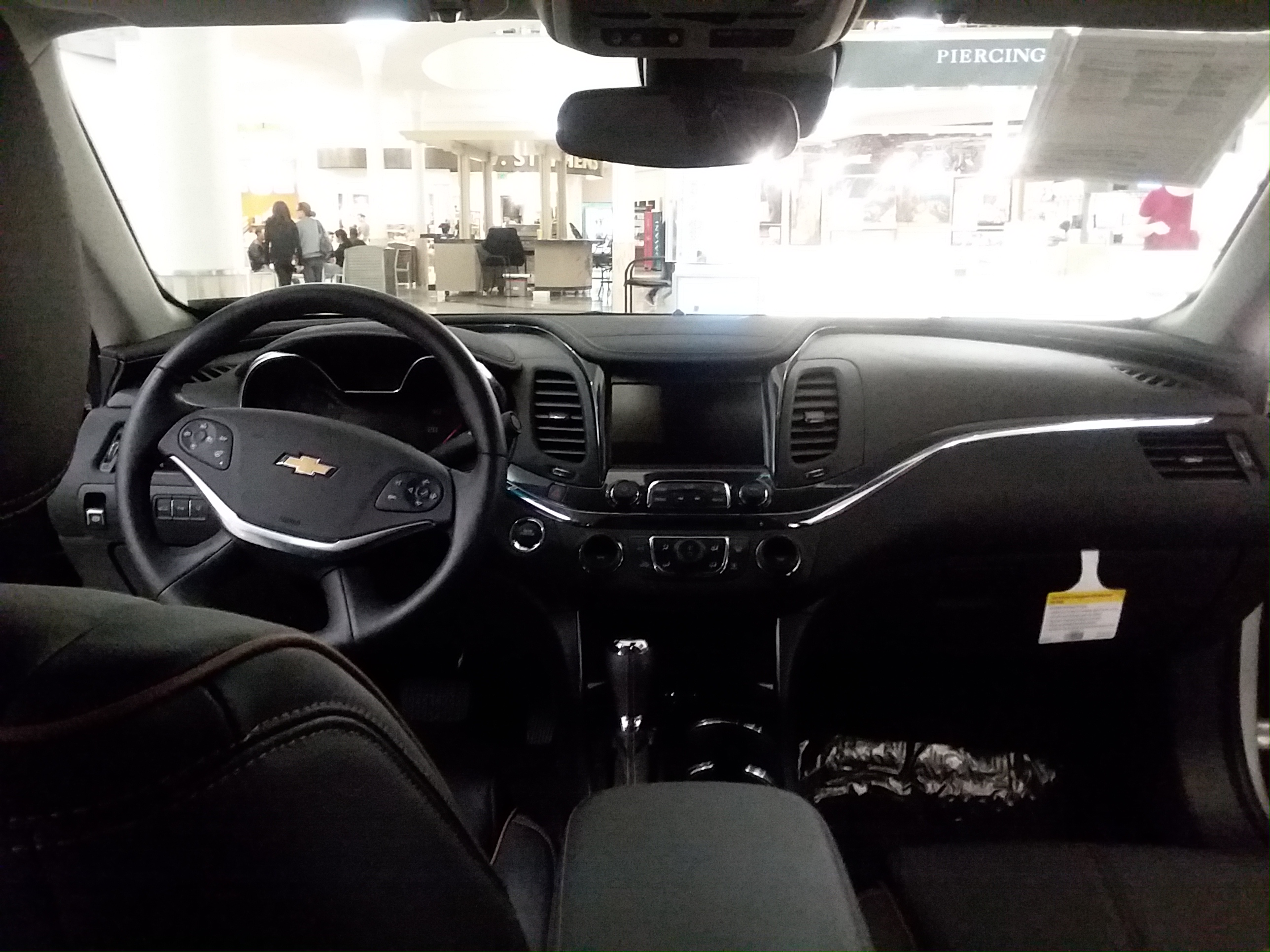 Chevrolet Impala 2018 4 Door Sedan interior. Built in Detriot, Michigan, United States